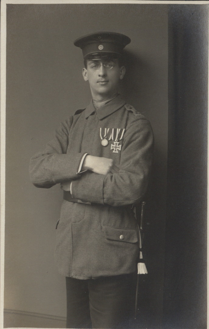 A Saxonian soldier with the Friedrich-August-Medaille and the Iron Cross IInd, Class